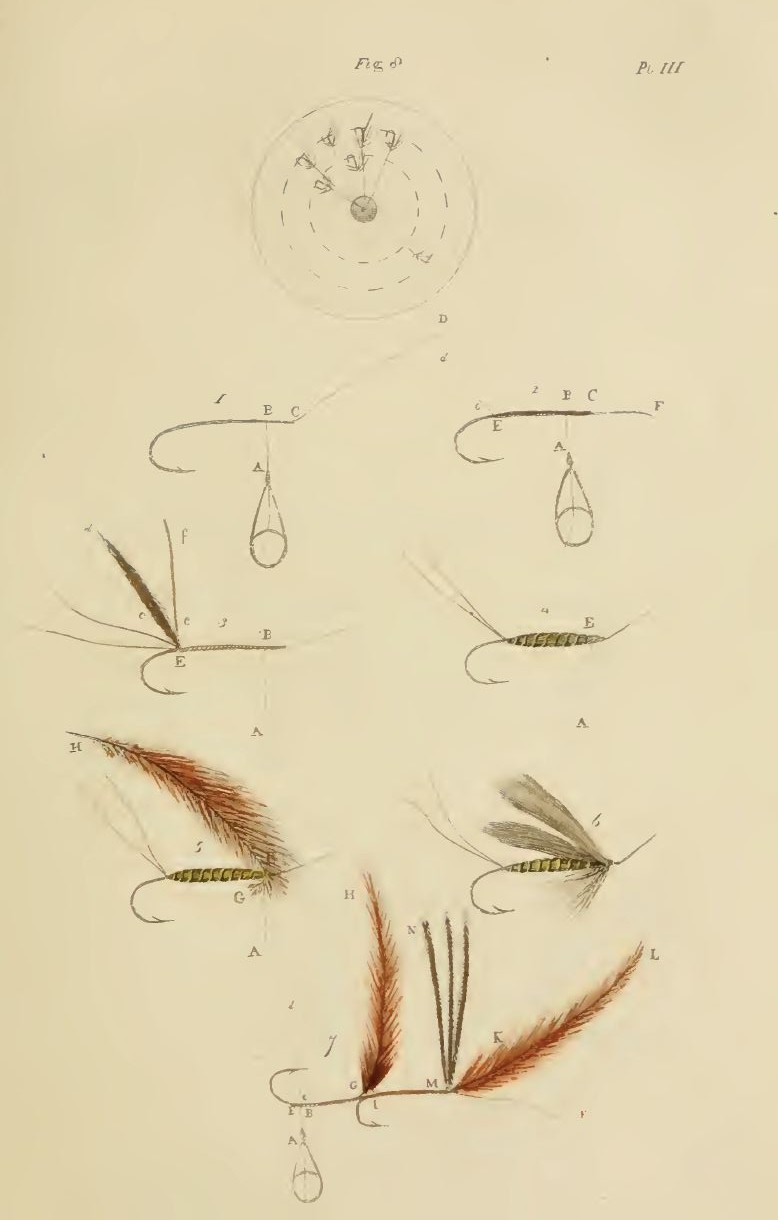 Plate III from The Fly-fisher's Entomology, 1849 by Alfred Ronalds.